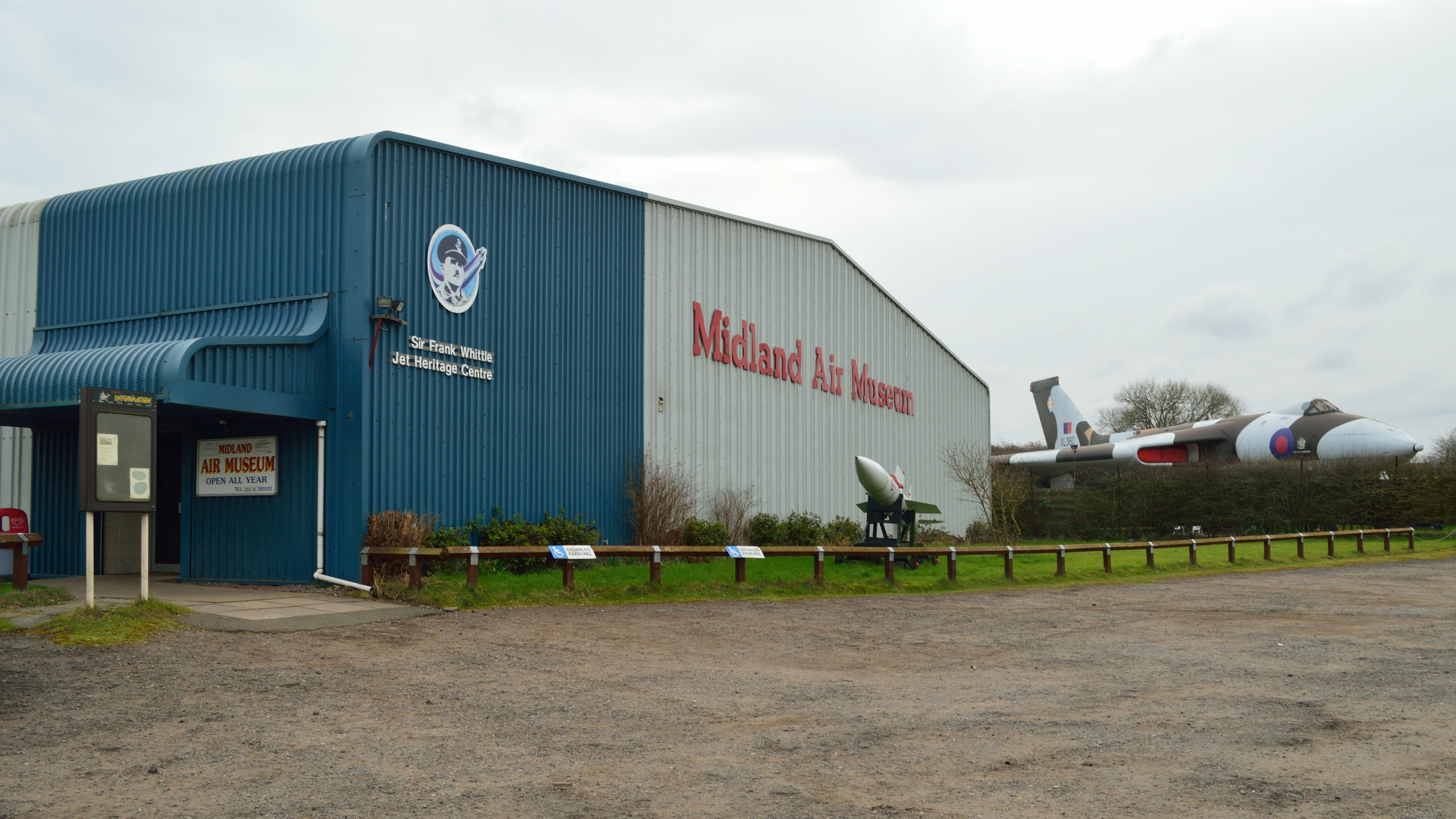 Midland Air Museum entrance through the Sir Frank Whittle Jet Heritage Centre, from the car park. A Thunderbird missile is exhibited in front of the building and the Vulcan exhibit is visible to the right of the building.